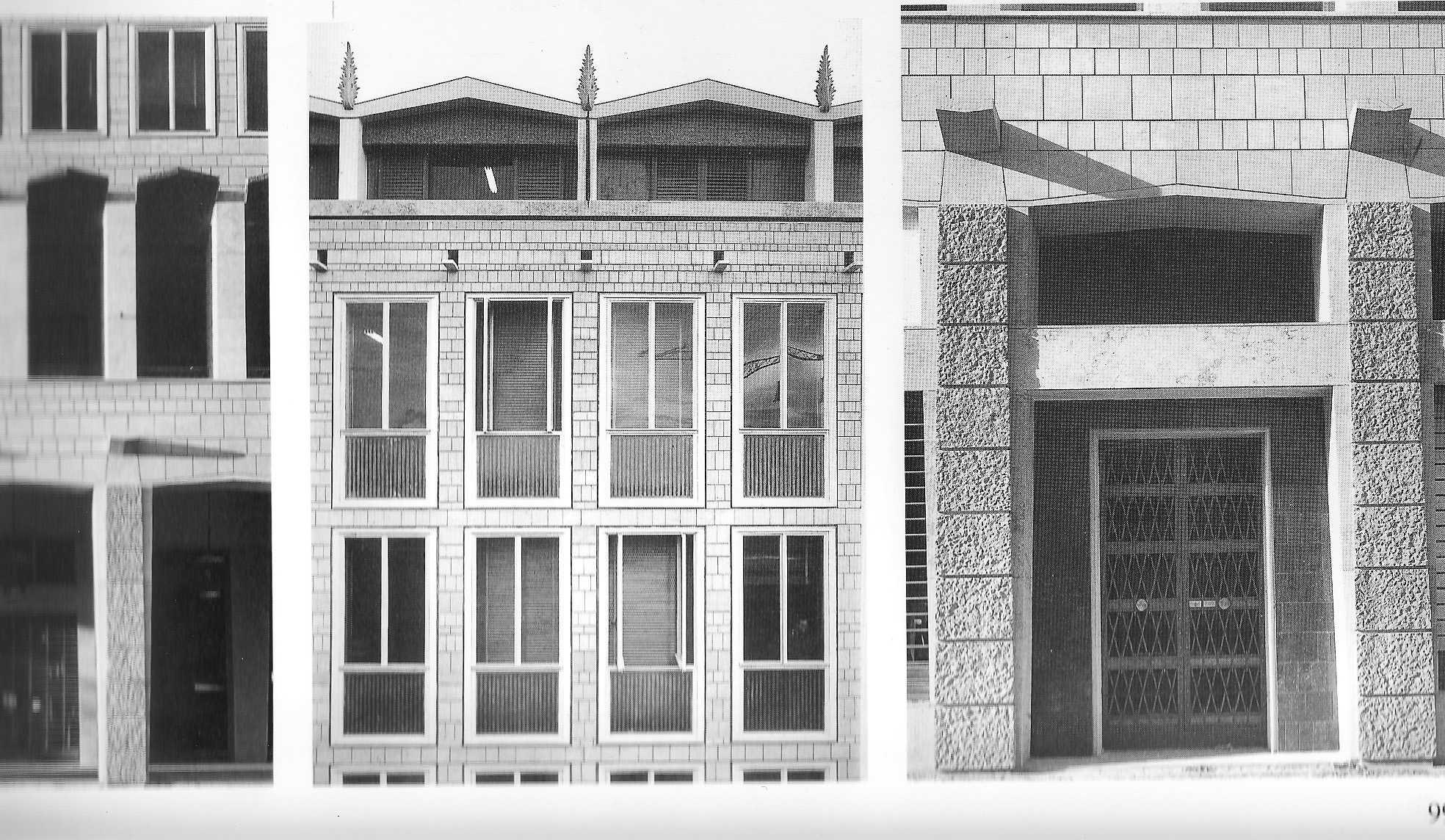 Three details of "Palazzo Grande", Livorno, Italy, 1952